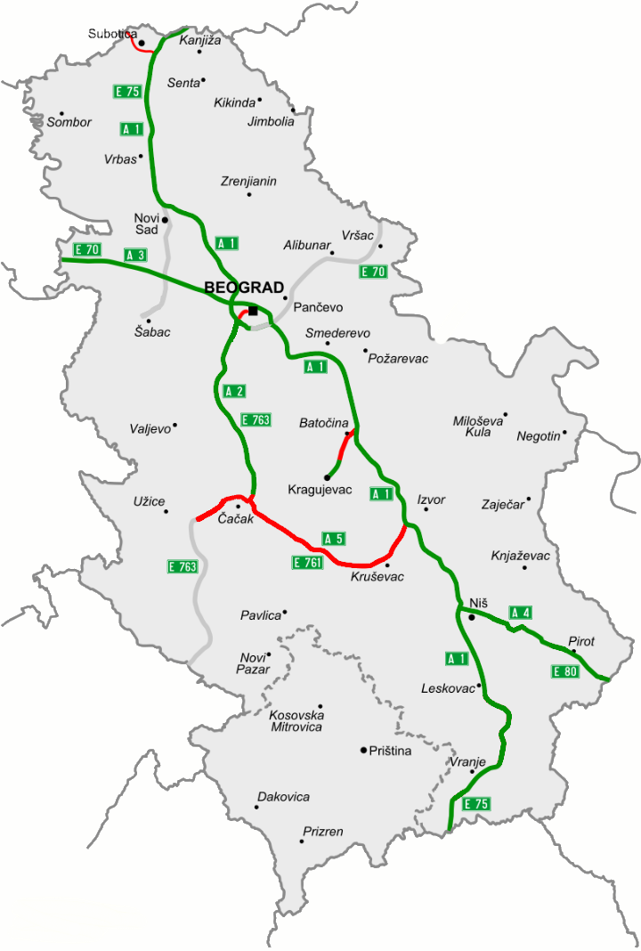 Map of Highways in Republic of Serbia